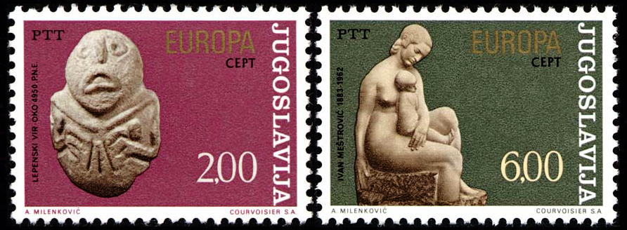 Postage stamps of Yugoslavia. 1974. Issue of EUROPA-CEPT program.